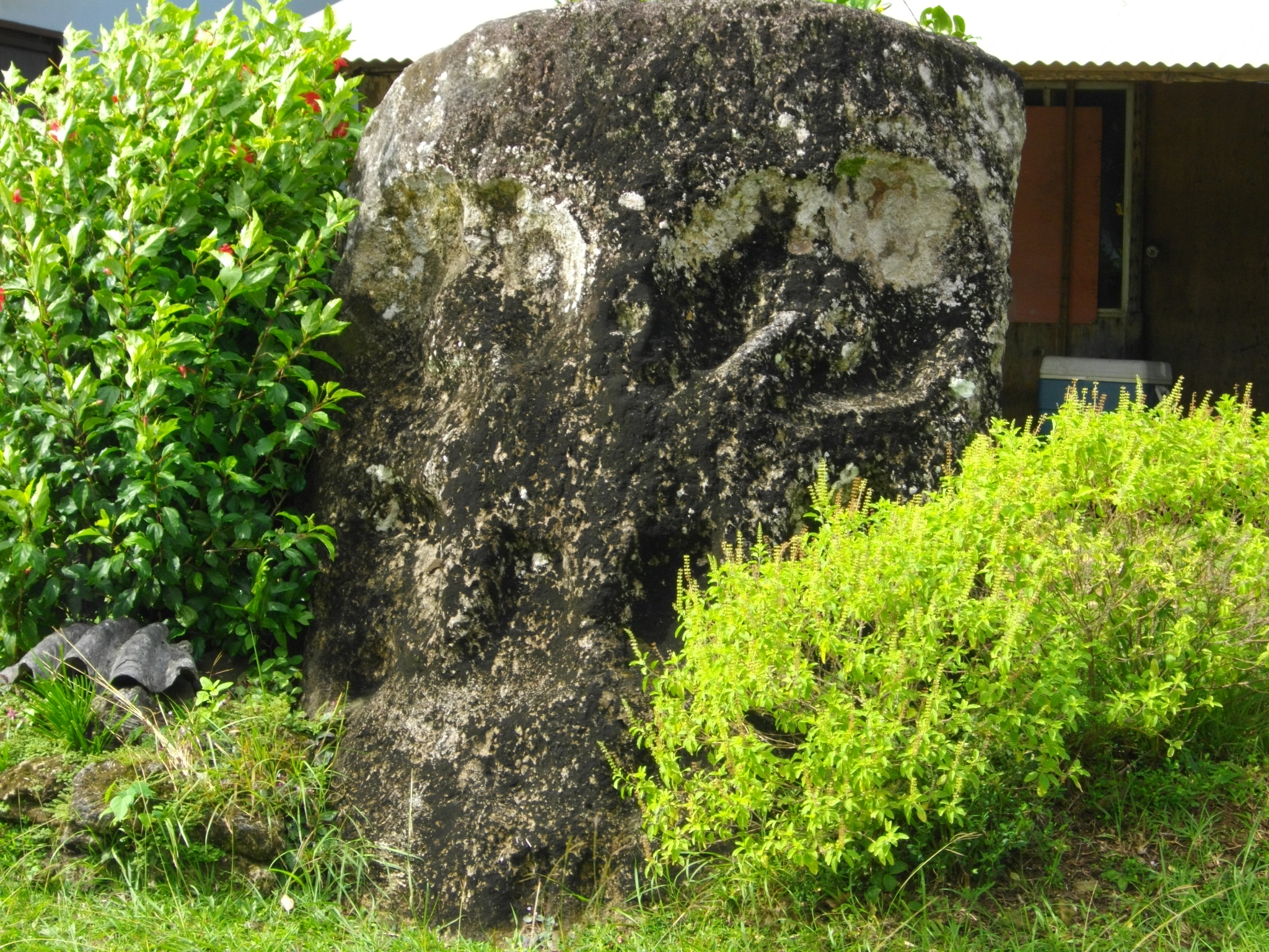 Palauan Stone Face (Odalmelech site) in Melekeok